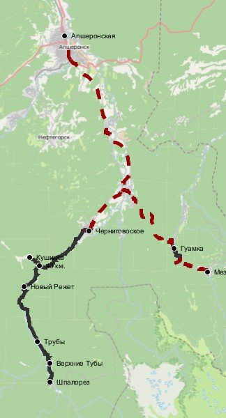 Apsheronskaya narrow gauge railway